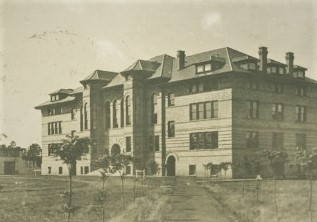 Photo of Southwest Louisiana Industrial Institute in Lafayette, LA